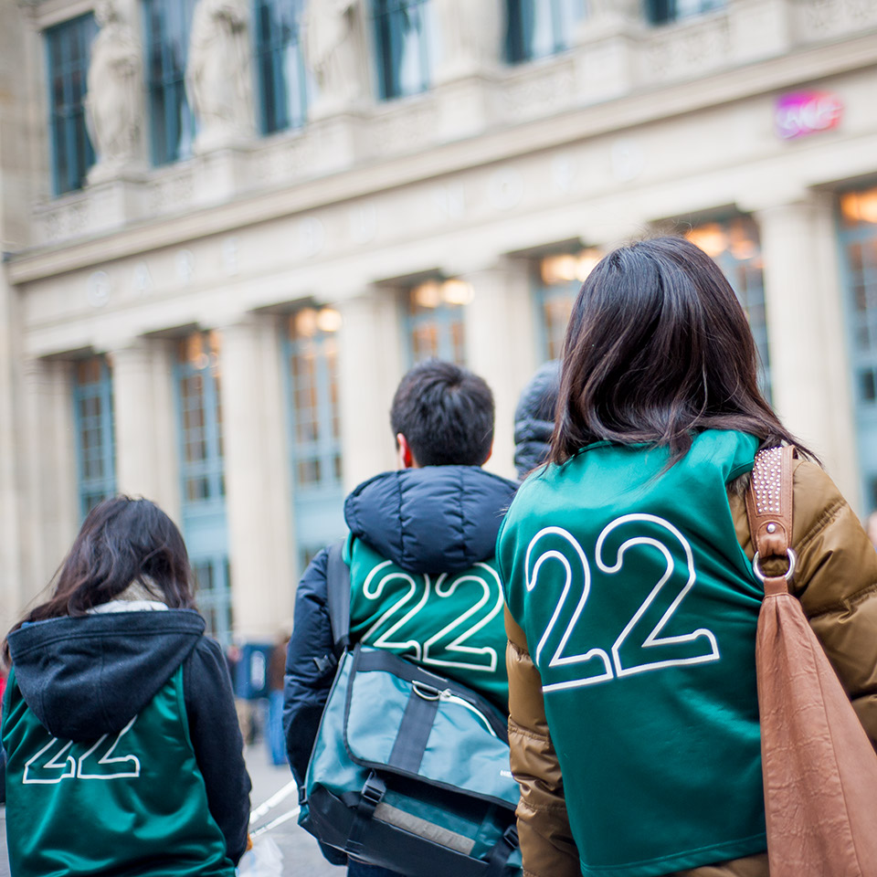 Volunteers from the Green Bird Paris NPO, they are cleaning the front place of the Paris "Gare du Nord" Station February 23rd 2013.